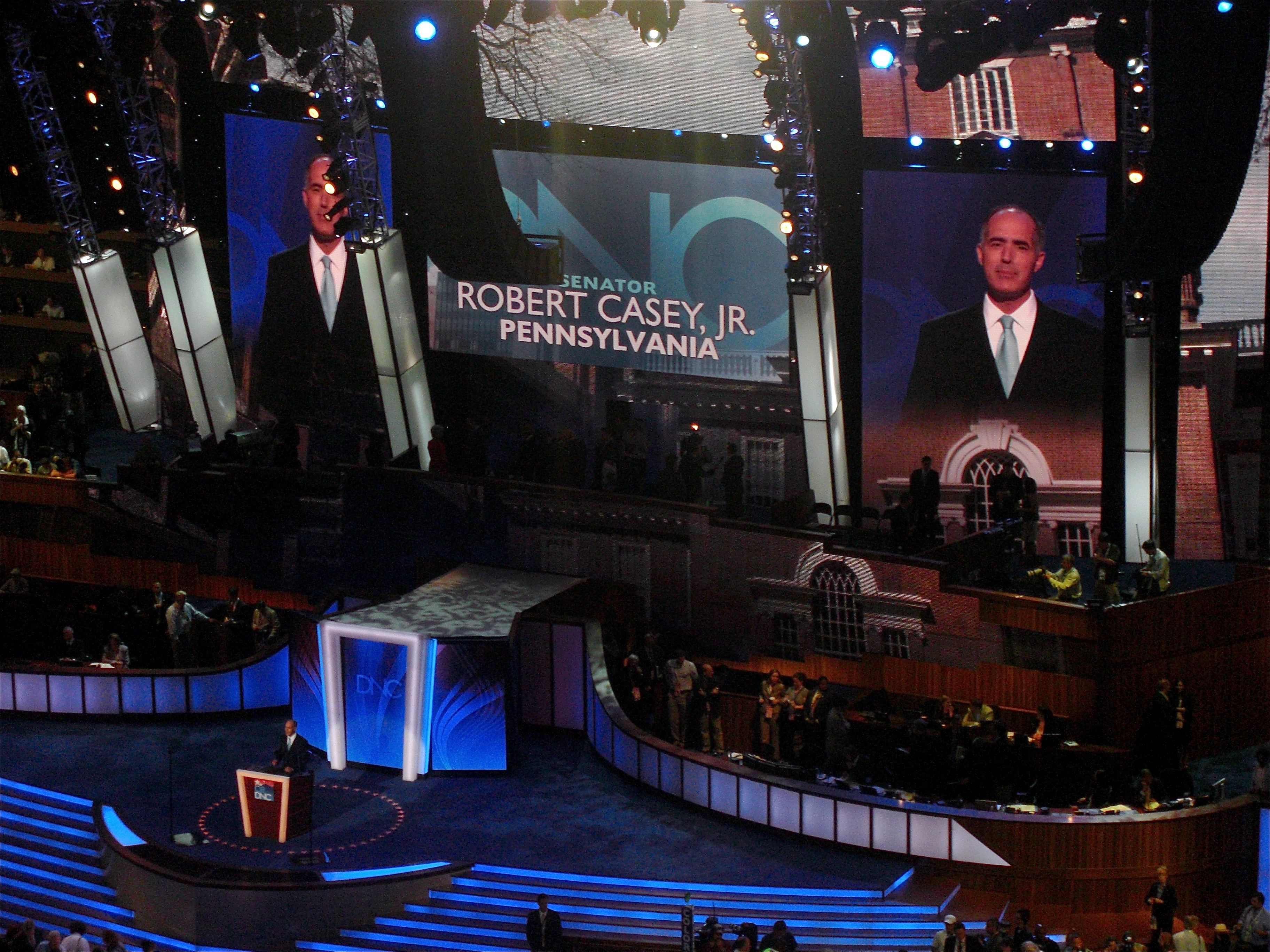 Bob Casey speaks during the second day of the 2008 Democratic National Convention in Denver, Colorado.